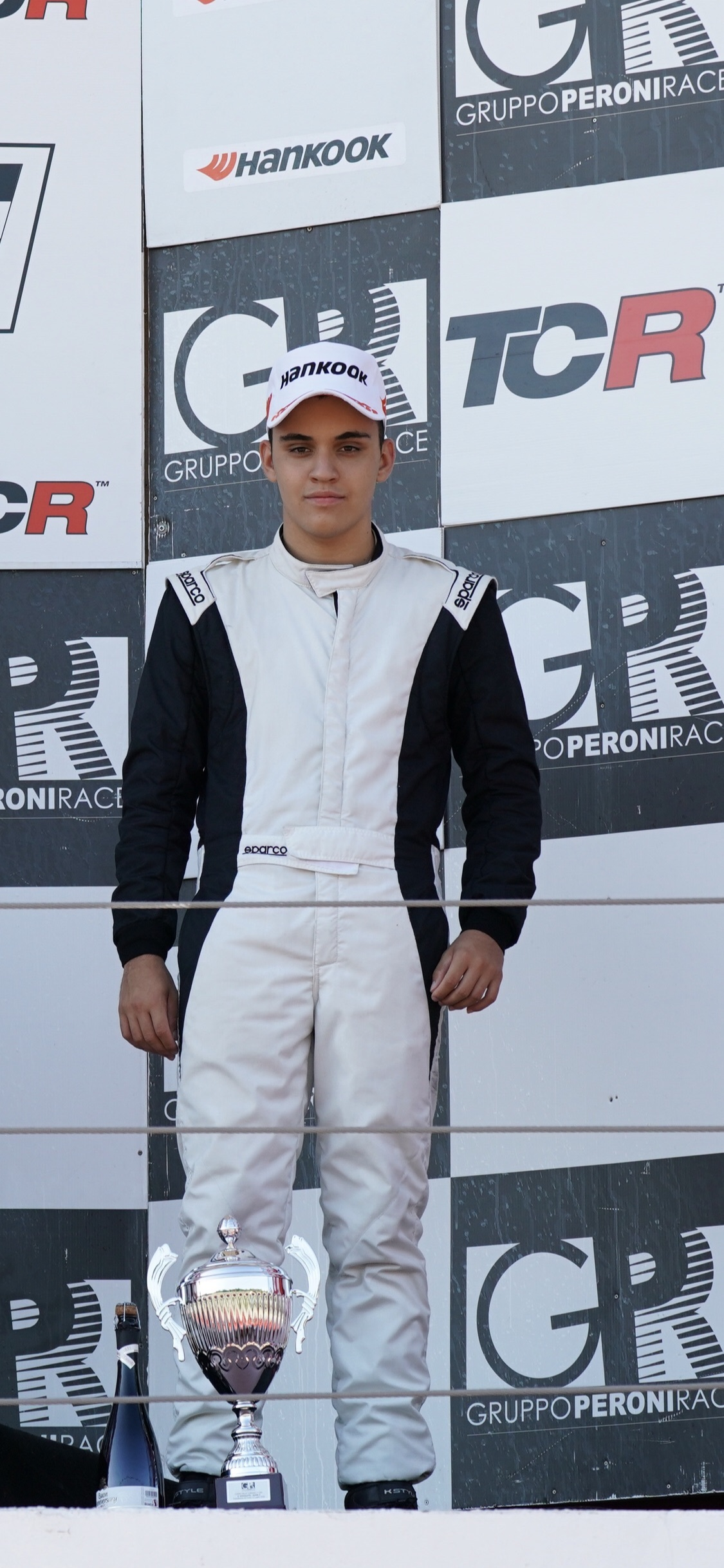 Alessandro Giardelli on the podium in 2020